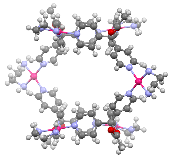 structure of the cationic coordination cage published in doi 10.1002/(SICI)1521-3773(19980817)37:15 3.3.CO;2-S